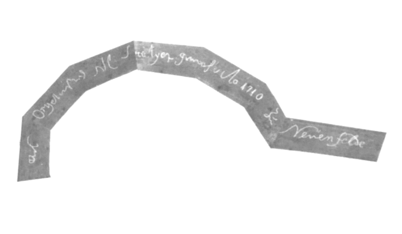 original signature of Frans Caspar Schnitger (chalk), organ in Weener (1710), middle tower